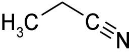 Chemical structure of propionitrile